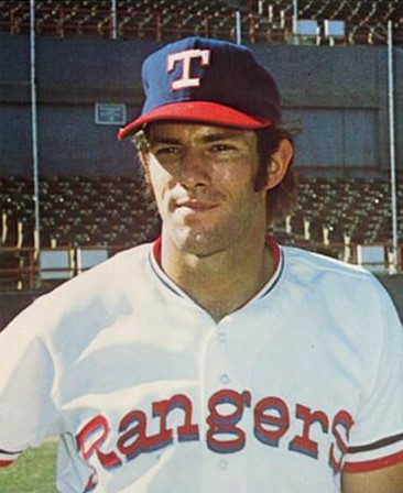 Image cropped from a baseball card of Tom Grieve from the 1974 Texas Rangers Picture Pack set.